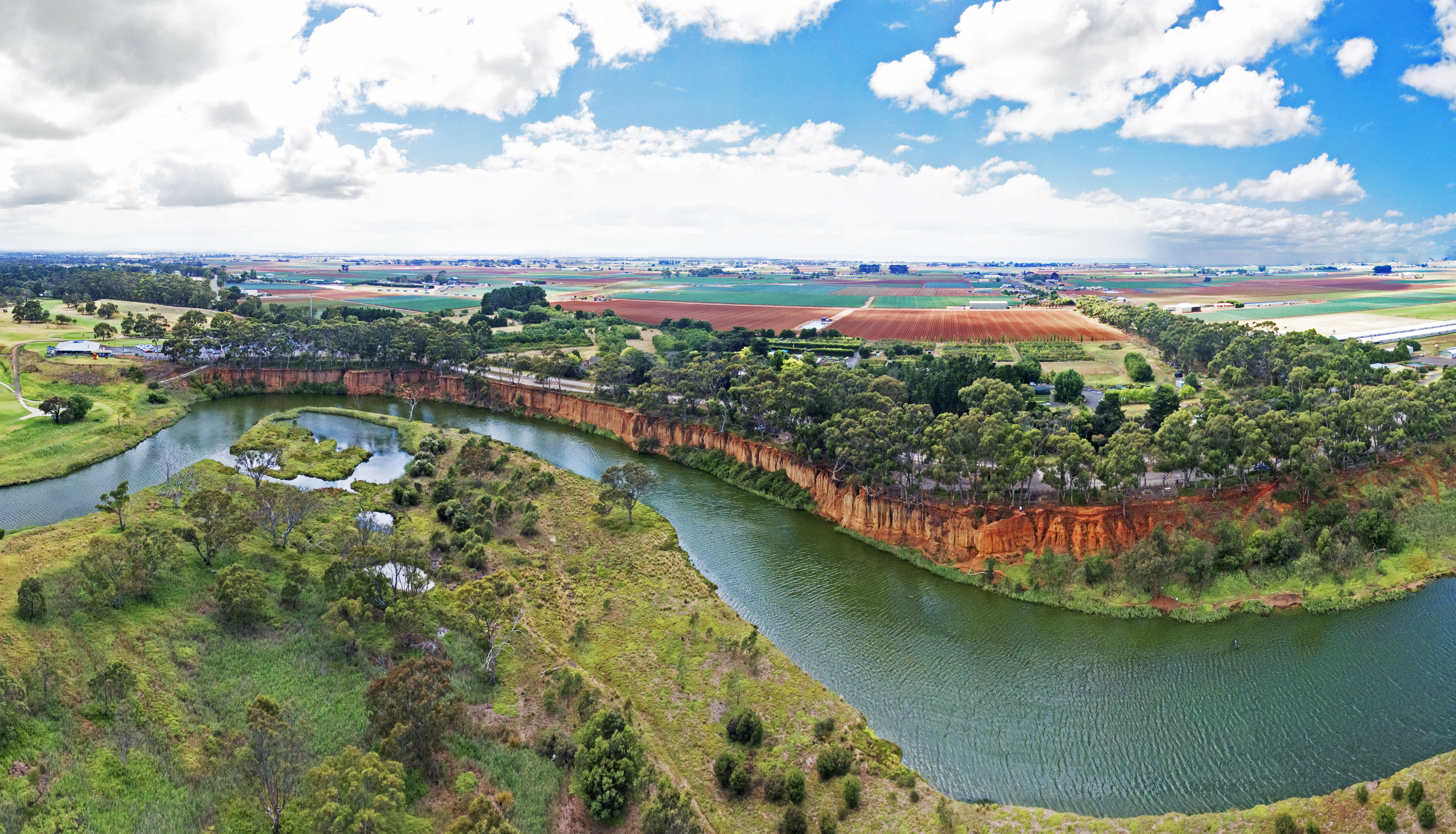 Aerial perspective of the K Road cliffs along the Werribee River. Taken from an altitude of 55m.